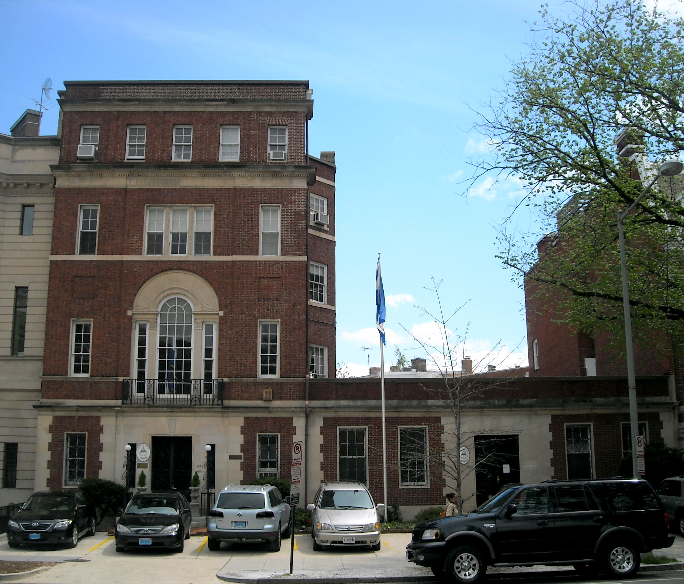 The Embassy of Nicaragua (since the 1940s) located at 1627 New Hampshire Avenue, NW in the Dupont Circle neighborhood of Washington, D.C. Dr. Louis C. Lehr (brother of Henry Symes Lehr) and his wife, Marie, were the original occupants of the building. It was designed and built by Clarke Waggaman in 1913–1914. Notable occupants of the building have included Norman H. Davis (while serving as Undersecretary of State), Raymond T. Baker (while serving as Director of the U.S. Mint), Joseph Hendrix Himes (while serving in Congress), Roy D. Chapin (while serving as Secretary of Commerce), and Guillermo Sevilla-Sacasa (while serving as Nicaraguan ambassador). The embassy is a contributing property to the Dupont Circle Historic District. Its 2009 property value is $5,876,530.